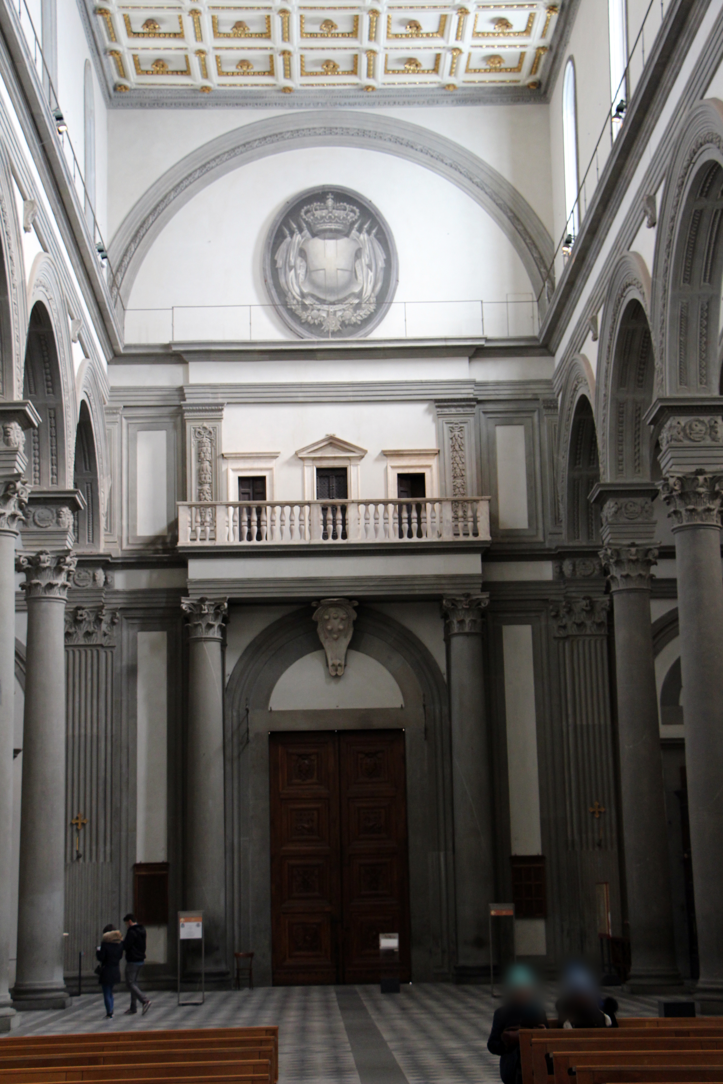 Interior of the Basilica of San Lorenzo (Florence)